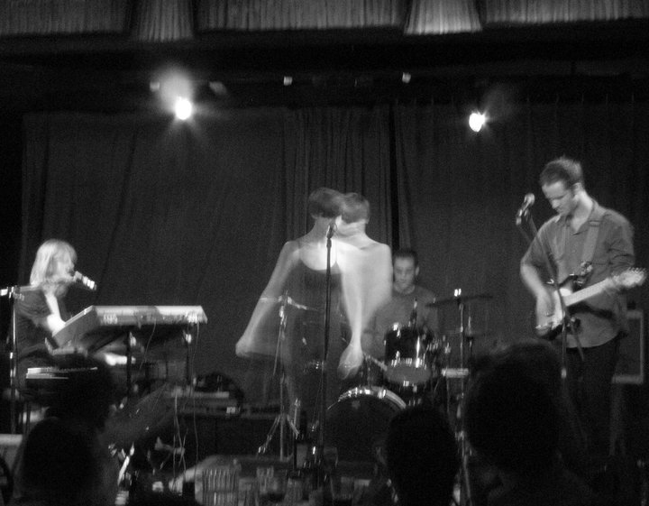 The Jezabels at their intimate gig at the Clarendon in Katoomba.